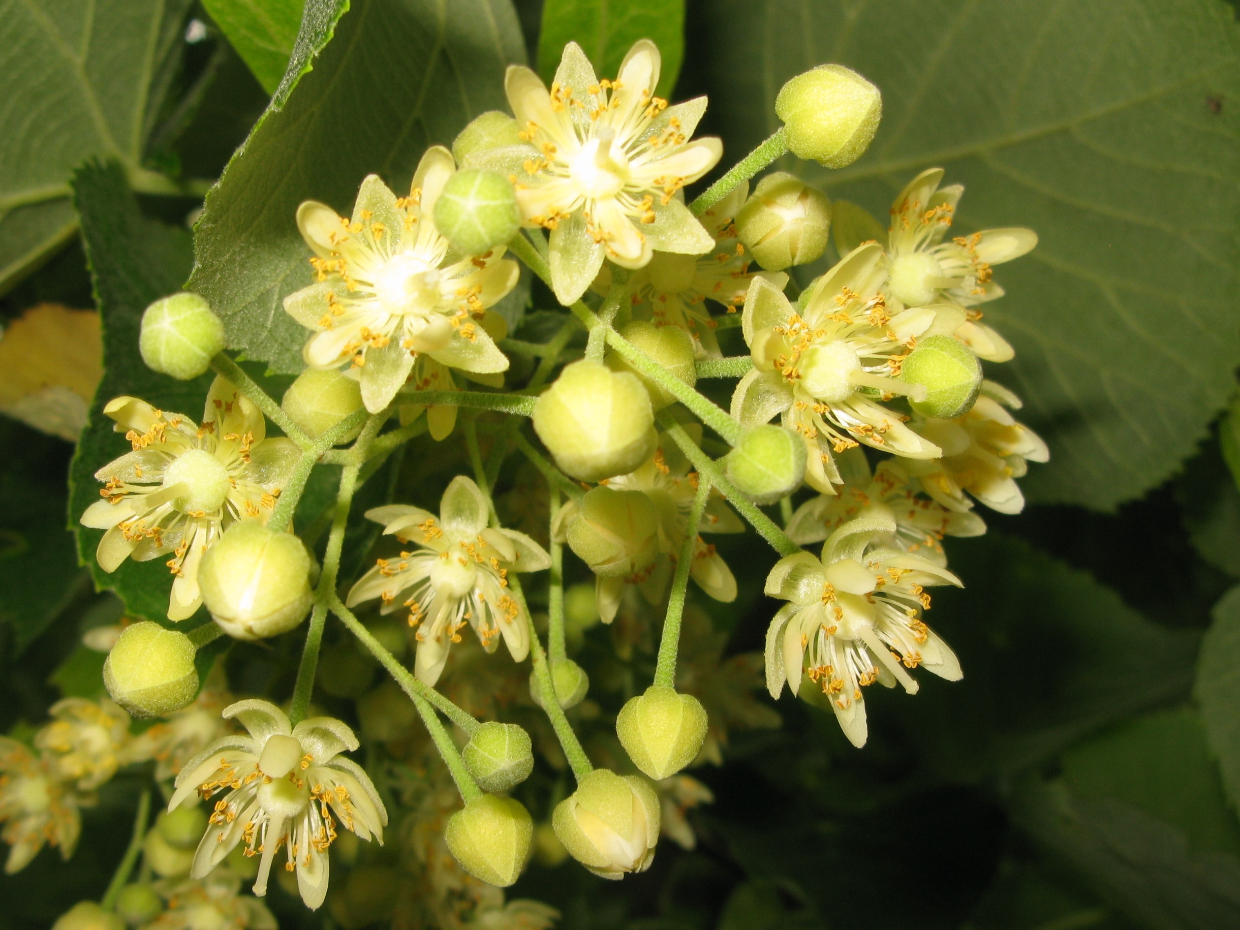 Tilia maximowicziana, Aizu area, Fukushima pref.,Jpan